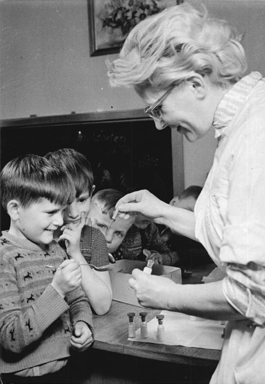 New immunization methods against polio in Kreis Zittau, East Germany. In Kreis Zittau, our republic's first polio vaccinations in the form of drops, delivered in water or fruit juice, have begun. American scientists first succeeded in developing such a vaccine, which is produced using the same method in the Soviet Union among other countries. This vaccine is being used in many countries in the world and causes no complications. Experience has found that this new vaccination method produces an even more complete immunity that the old injected method. In the coming weeks and months vaccinations in the whole DDR will be carried out using these new methods and vaccine produced in the Soviet Union. In Kreis Zittau 30 000 people aged 2 months to 20 years have just been immunized. Caption: Coworker Margarete Hauptmann from the Hygiene Inspectorate of Zittau at the delivery of the new vaccine in the kindergarten of the Zittau textile factory. 26.3.1960 28.3.1960 (Note: this is a translation of the original historic caption)